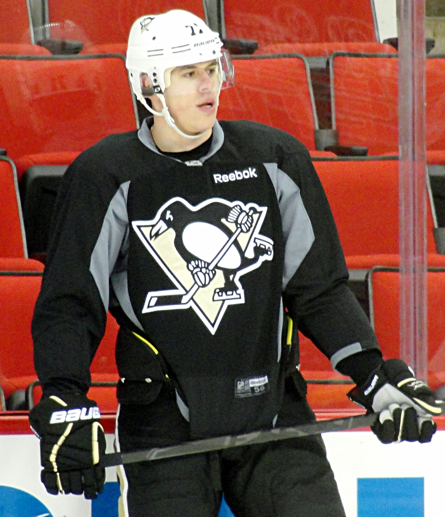 Pittsburgh Penguins center Evgeni Malkin during the December 3, 2011 morning skate at RBC Center in Raleigh, NC.